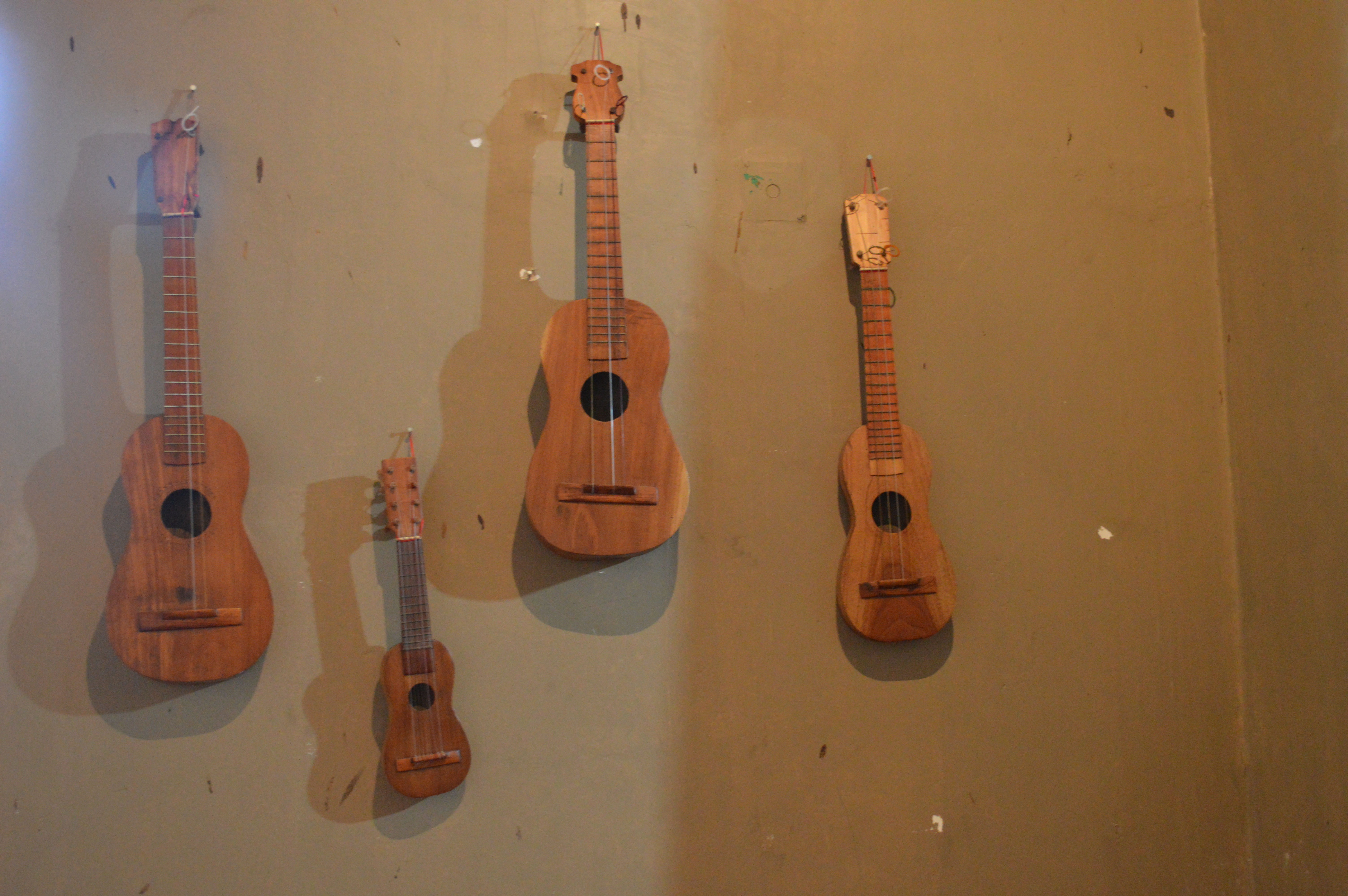 jaranas at the Salvador Ferrando Museum in Tlacotalpan, Veracruz, Mexico